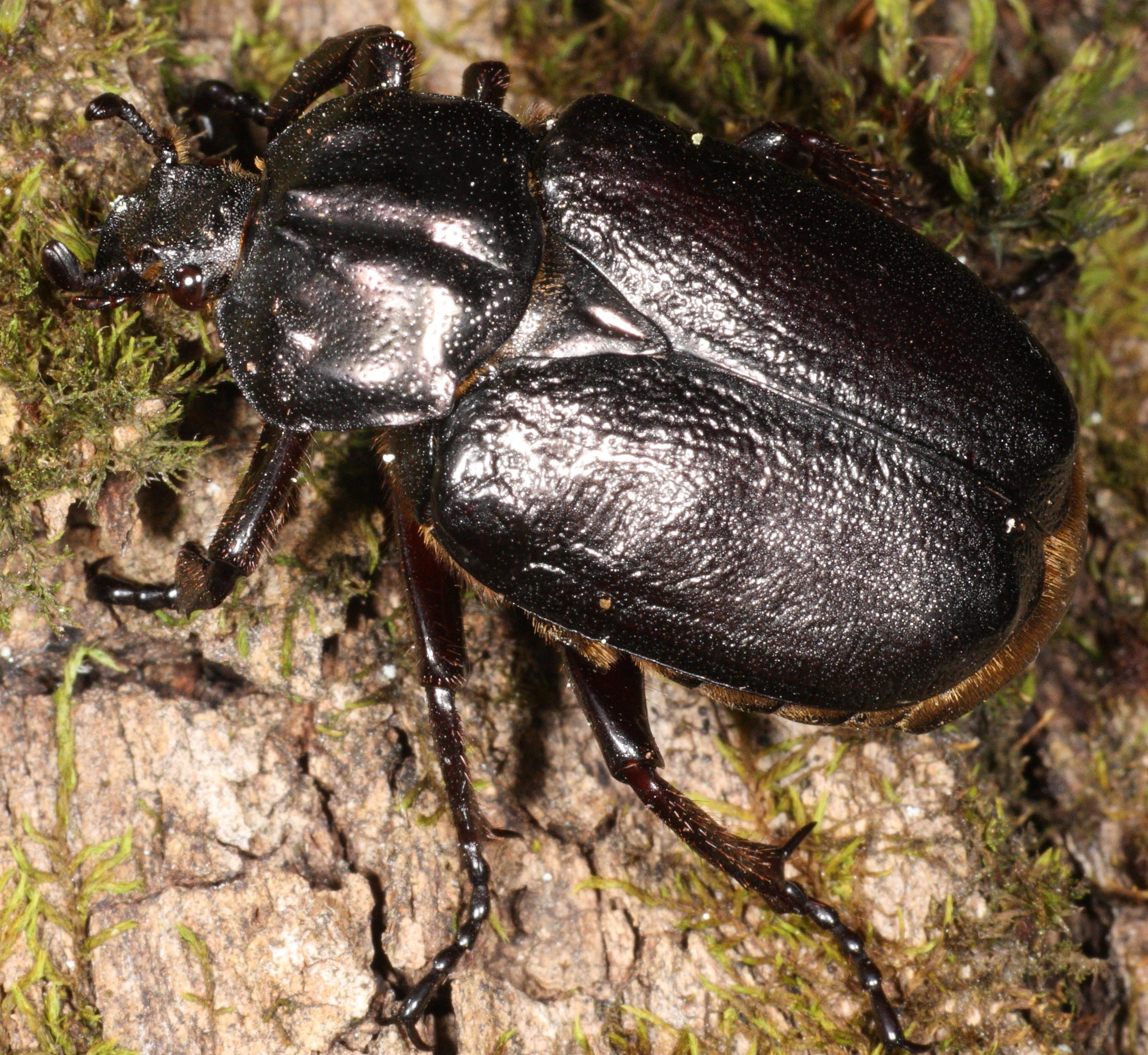 Hermit beetle Osmoderma eremita male. Especially the male is active when it is sunny and hot. The leather-like structure is obvious on the back.